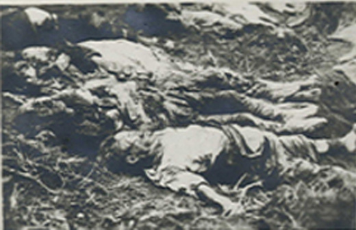 Geochang massacre (거창양민학살사건)